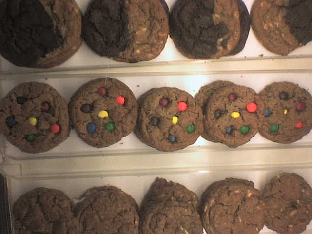 Assorted cookies on a display for sale in São Paulo, Brazil. Picture taken with a Sony Ericsson W200a mobile phone. (Picture not to be modified, as its main purpose is to serve as a sample of a picture taken with the phone)